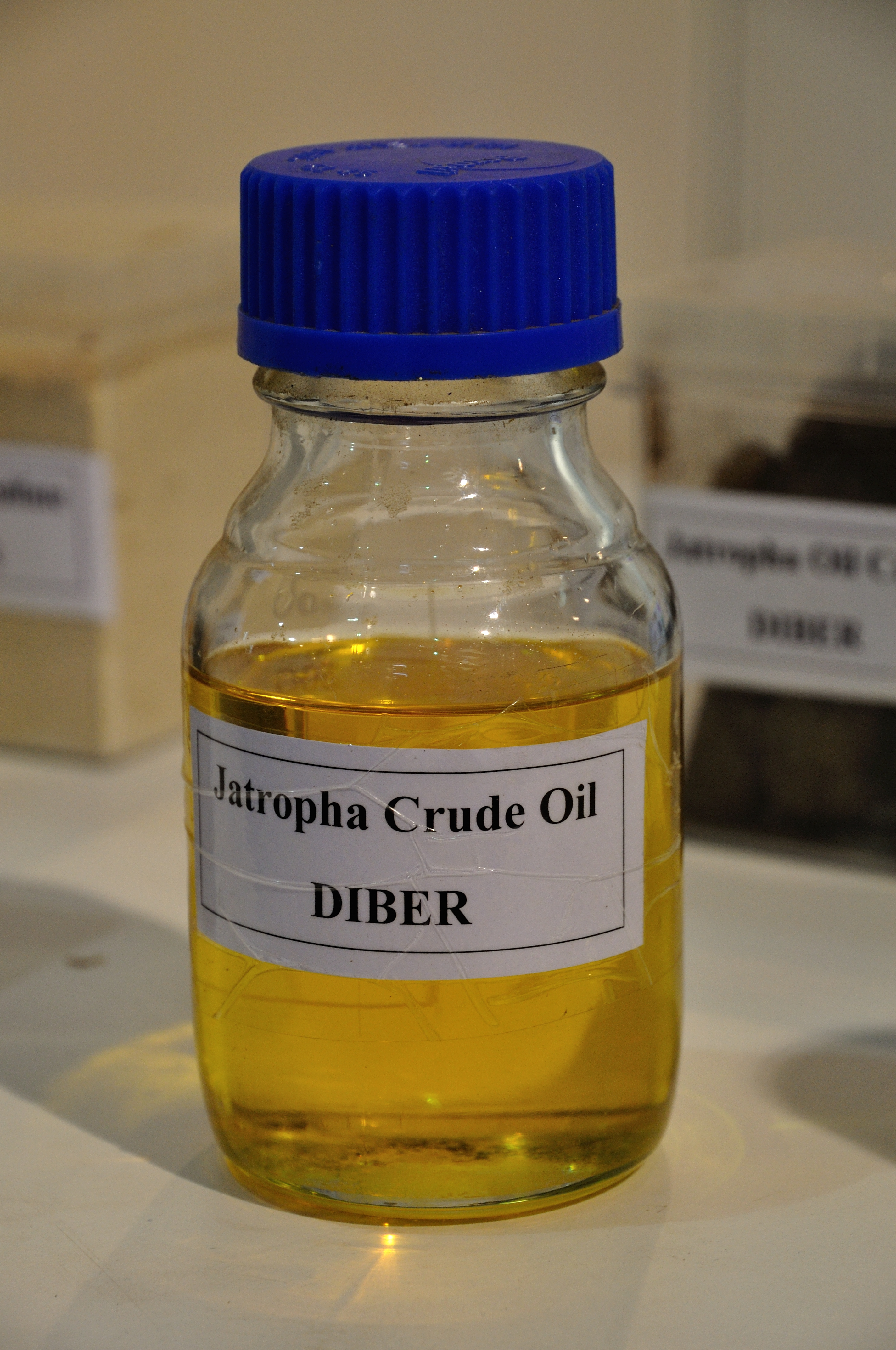 It is made by the 'Defence Research and Development Organisation', India or DRDO, shown at the 'Pride of India' exhibition, organised by the 'Indian Science Congress Association' on the occasion of the '100th Indian Science Congress' in Kolkata from 3rd to 7th january, 2013.